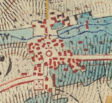 A screenshot of old Lidice (nowadays 20 km north-west from Prague, Czech Republic) of 1878 3rd Millitary survey taken via in 1:25000 ratio.